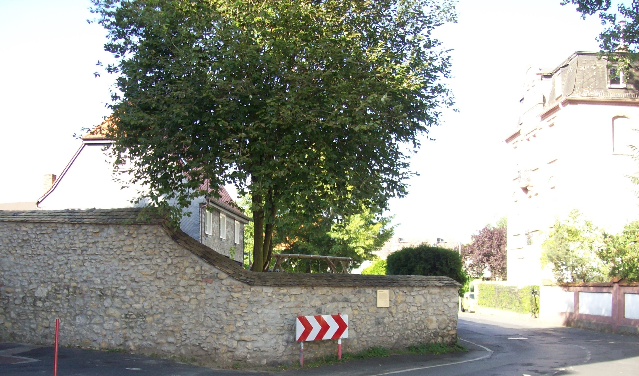 The old village wall from Bieber